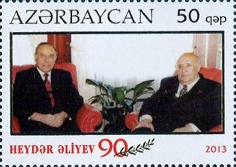 The 90th Ann. of National Leader Heydar Aliyev.